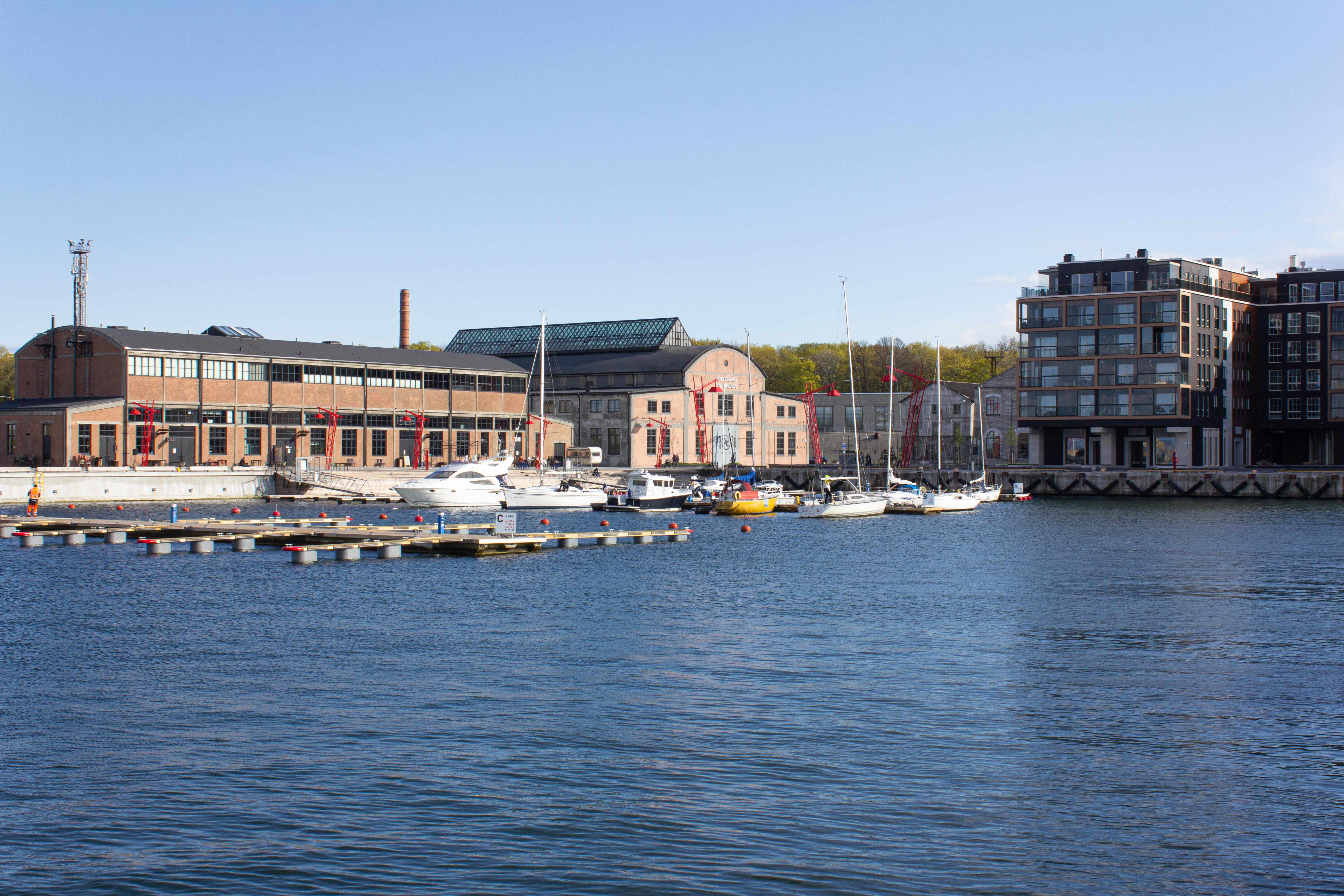 Noblessner Port, Staapli Street and Square of the Adam Johann von Krusenstern in Tallinn (2020-05-20)